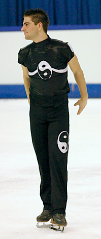 Yannick Ponsero skates his long program at the 2005 World Junior Championships in Kitchener, Ontario.